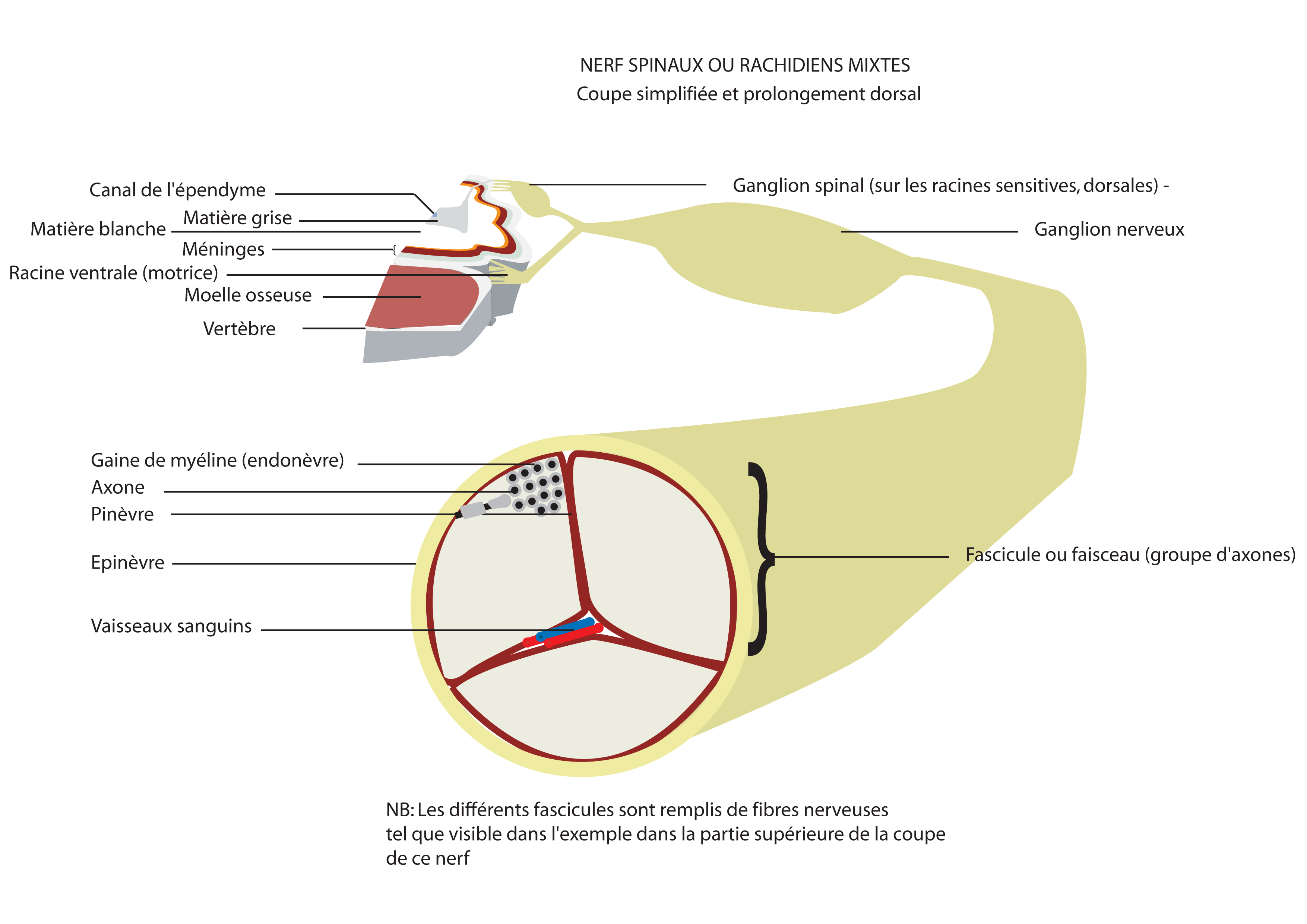 French simplified diagram of a nerve with his roots